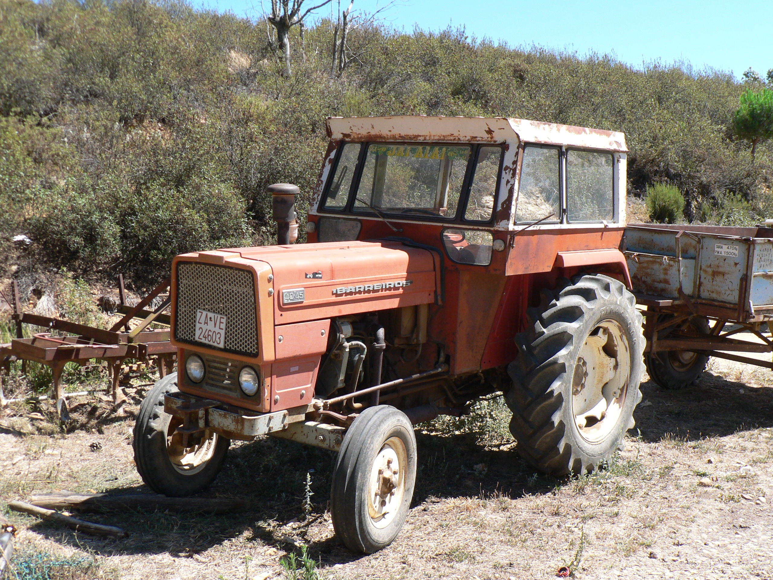 Barreiros 4045 tractor (year 1978), seen in Congosta (Zamora, Spain), August 2012